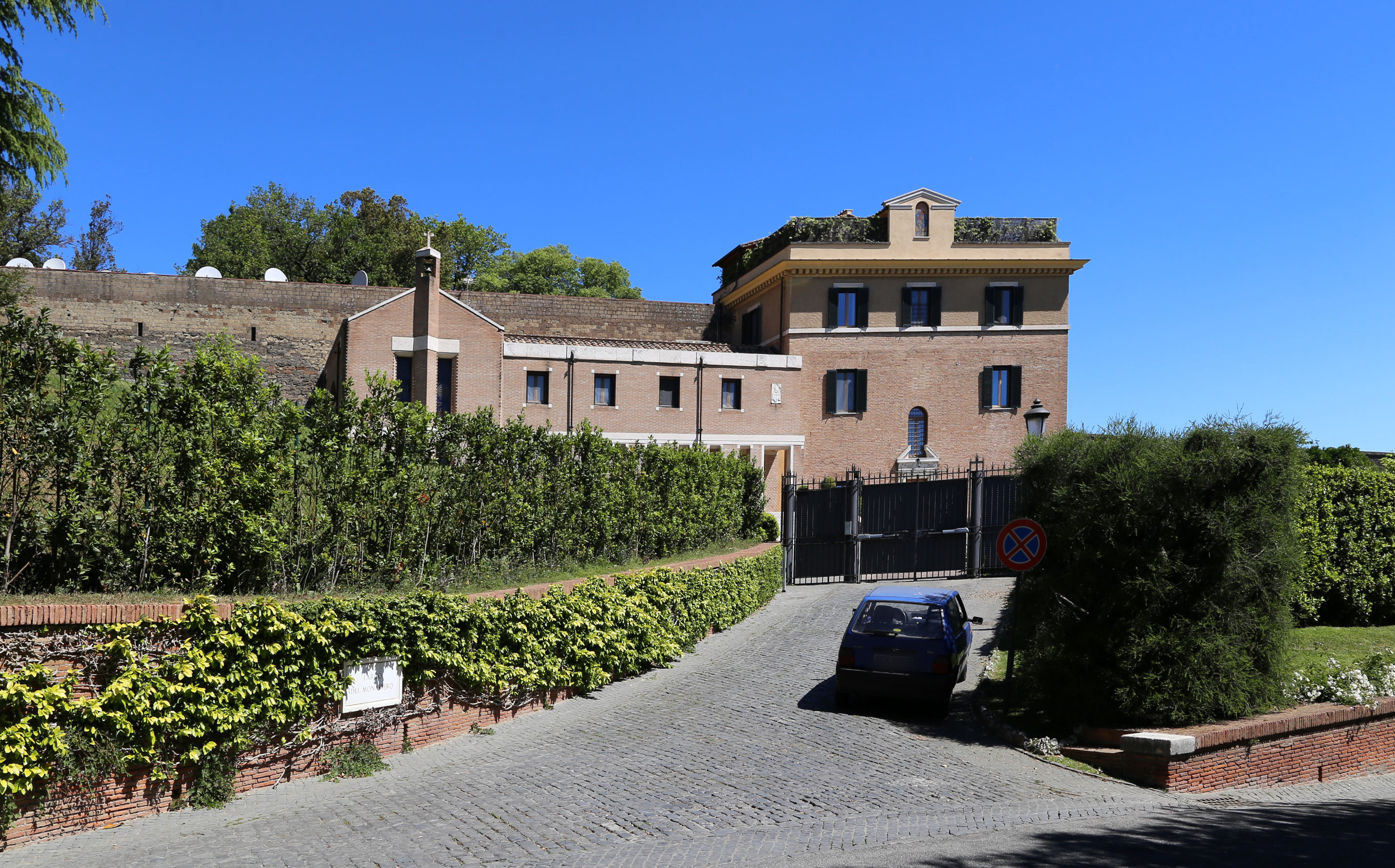 Gardens in the Vatican City